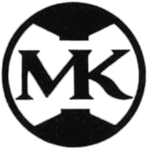 Mint mark